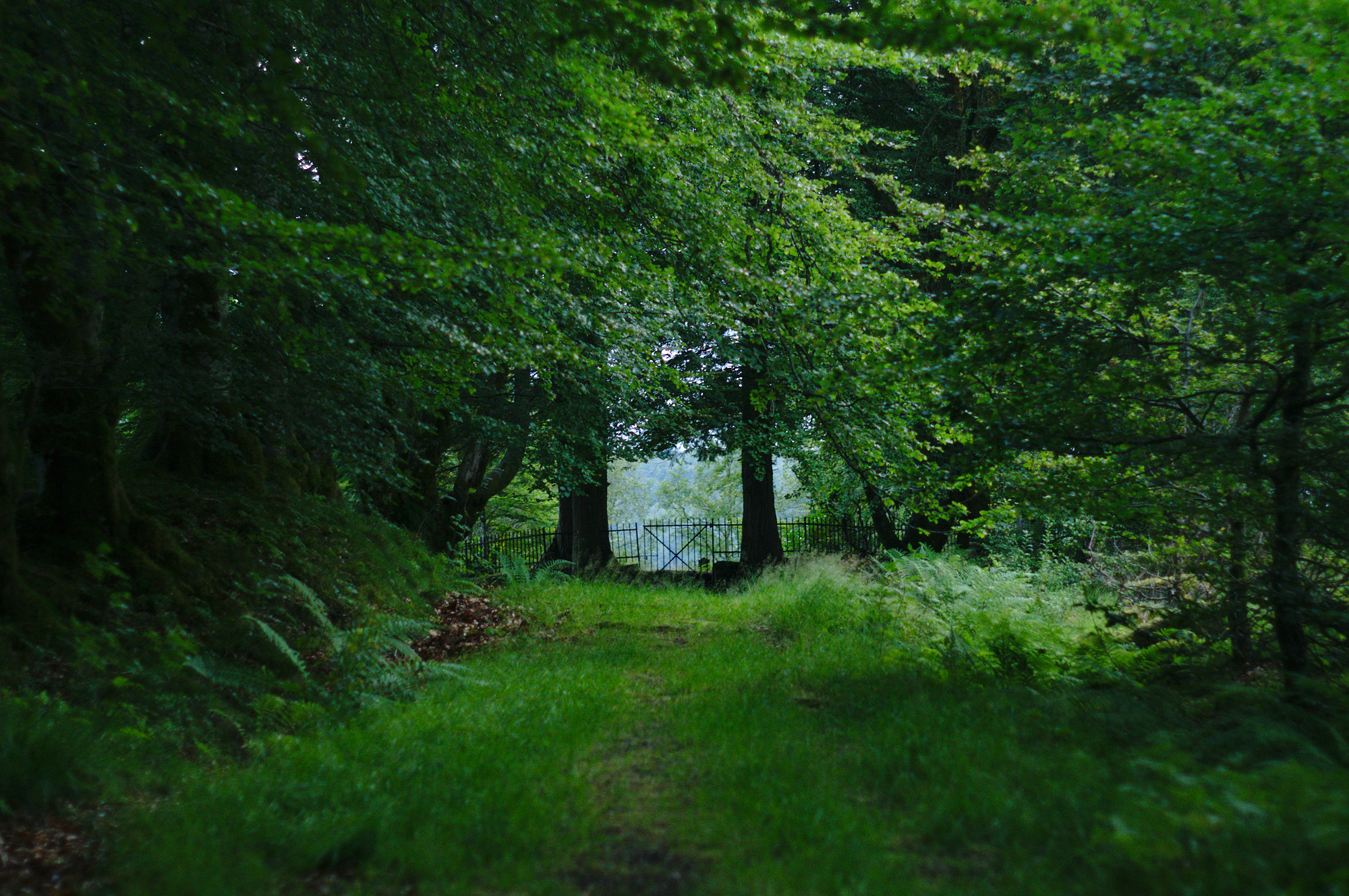 Fredensborg cemetery in Fjaler, Norway.